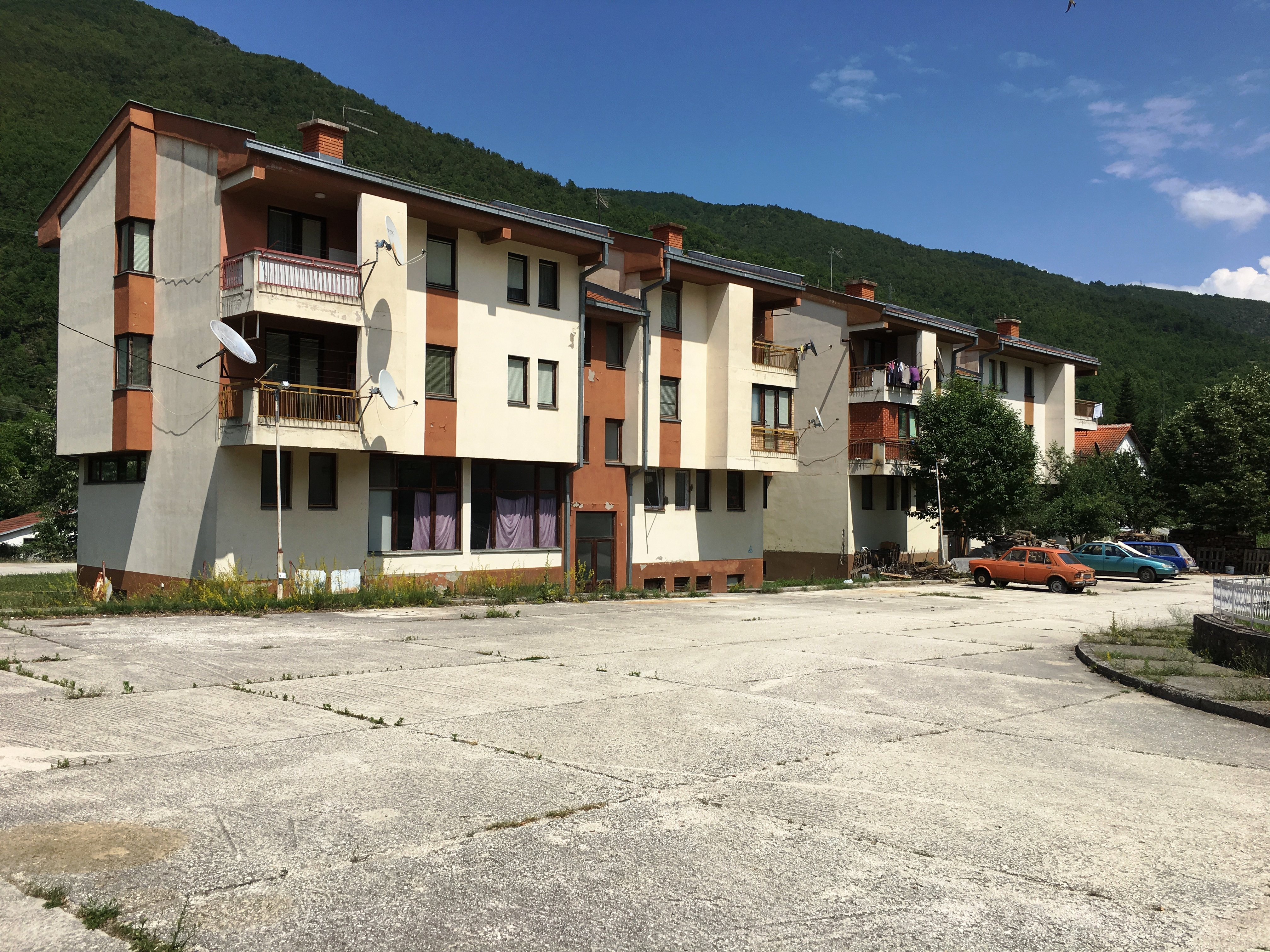 Buildings in the village of Samokov